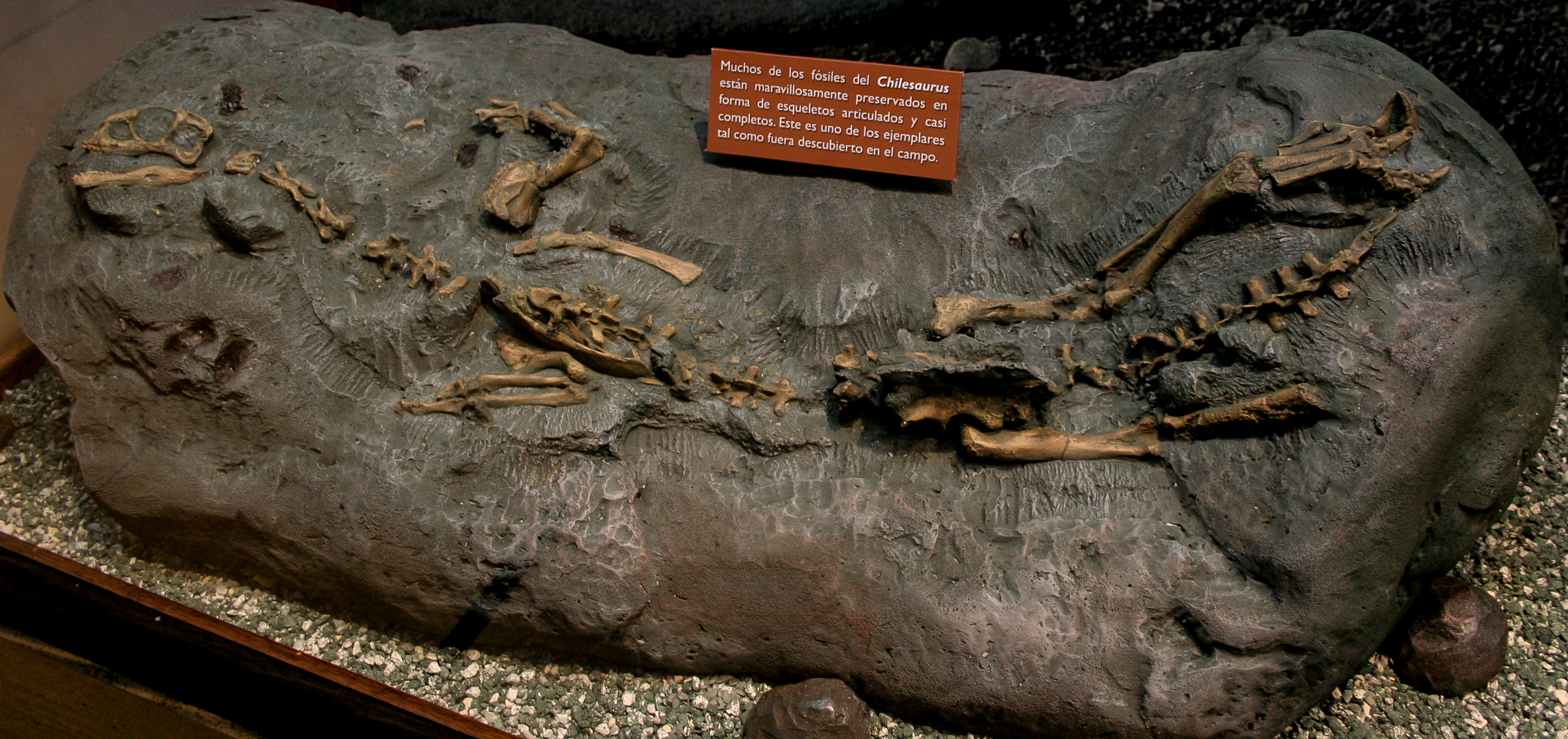 Chilesaurus holotype cast.